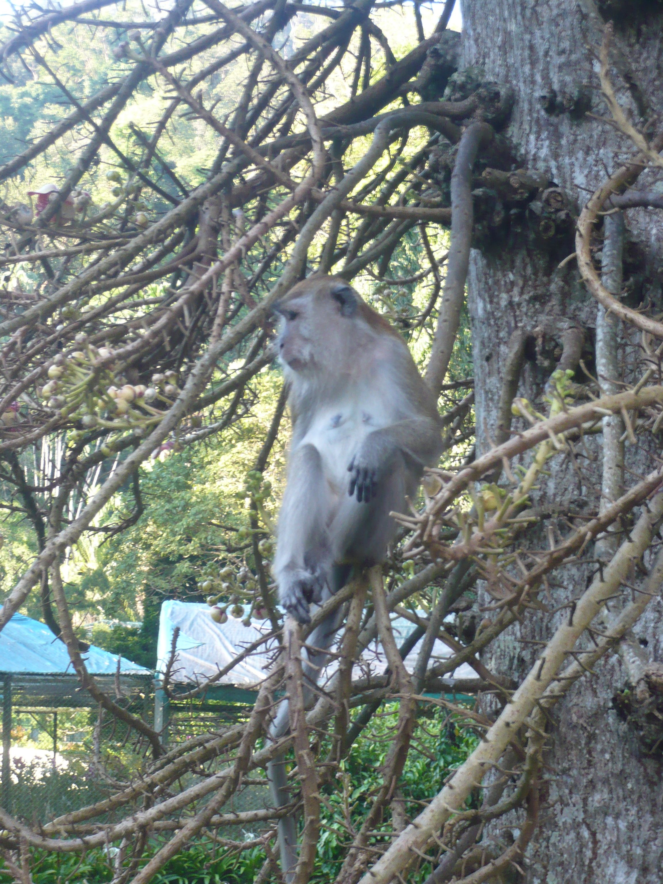 A macaque on the branches of a cannon-ball tree in the lush Penang Botanic Gardens.